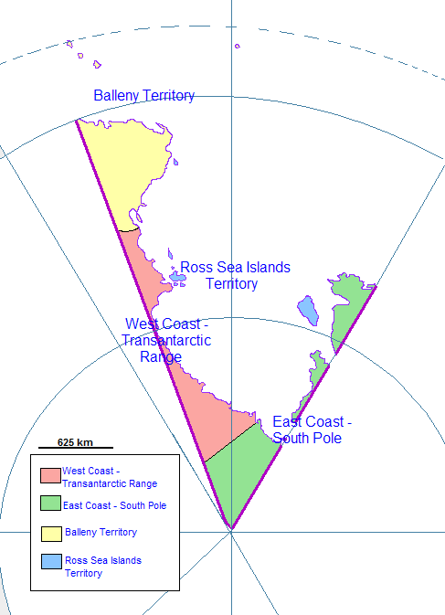 political map of NZ antarctic zone